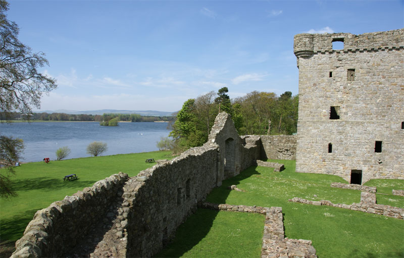 Lochleven Castle (Kinross, Scotland)